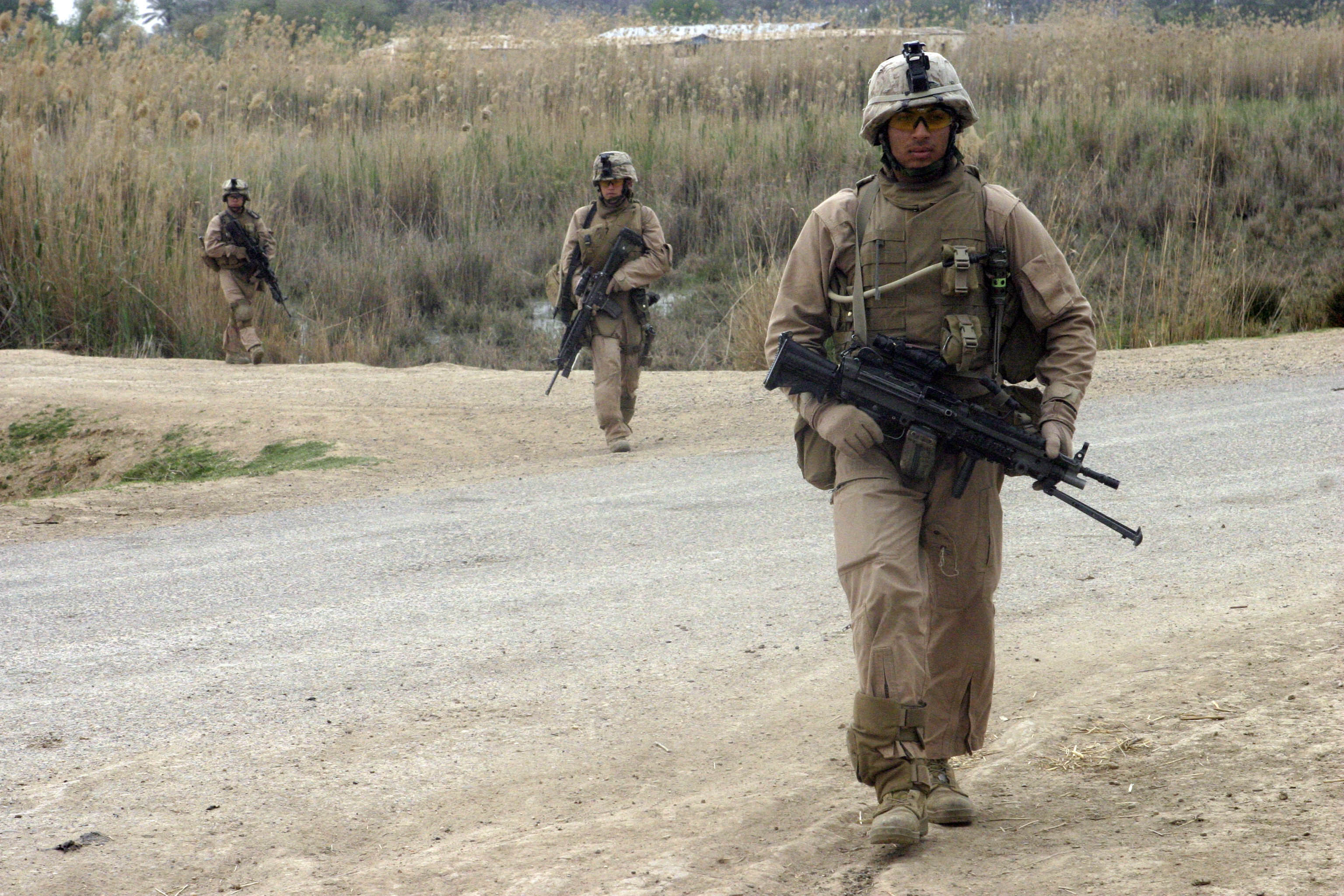 U.S. Marine Corps Lance Cpl. Angel M. Nunez leads his squad across a dirt road as they patrol during an operation in Zaidon, Iraq, on March 24, 2007. Nunez and his fellow Marines are assigned to Fox Company, 2nd Battalion, 7th Marine Regiment. DoD photo by Lance Cpl. Joseph A. Lambach, U.S. Marine Corps. (Released)